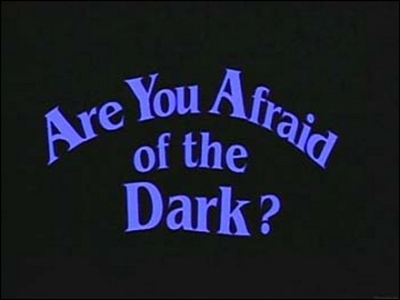 Made By Me